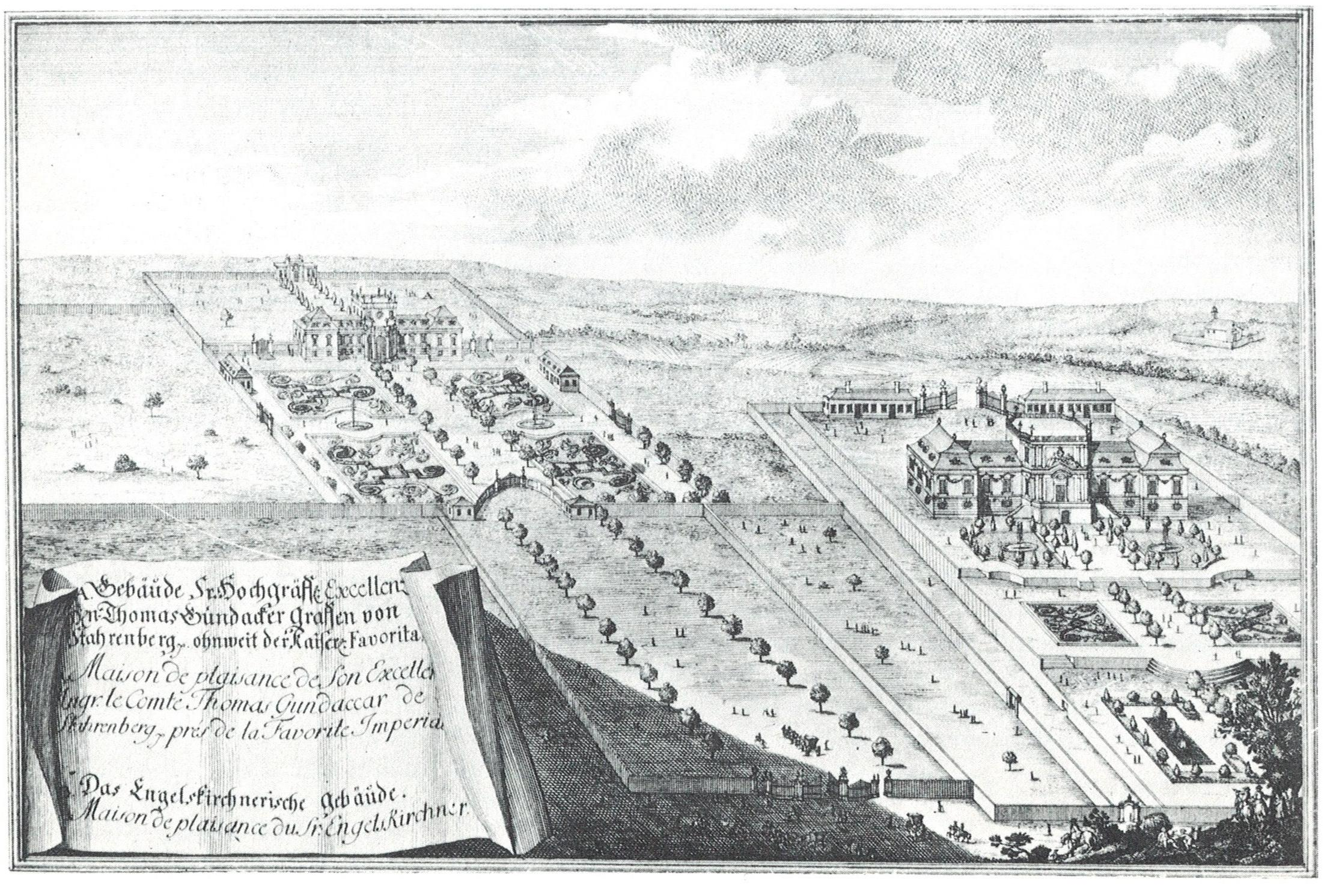 Image of the Engelskirchnerschen Lustgebäudes, named after its builder Leopold von Engelskirchen. Location at Wiedner Hauptstraße 63. / Schönburgstraße 1, built in 1710/11. 1854 Archduke Rainer of Austria bought the building and lived there until his death in 1913. The palace was torn down in 1957.